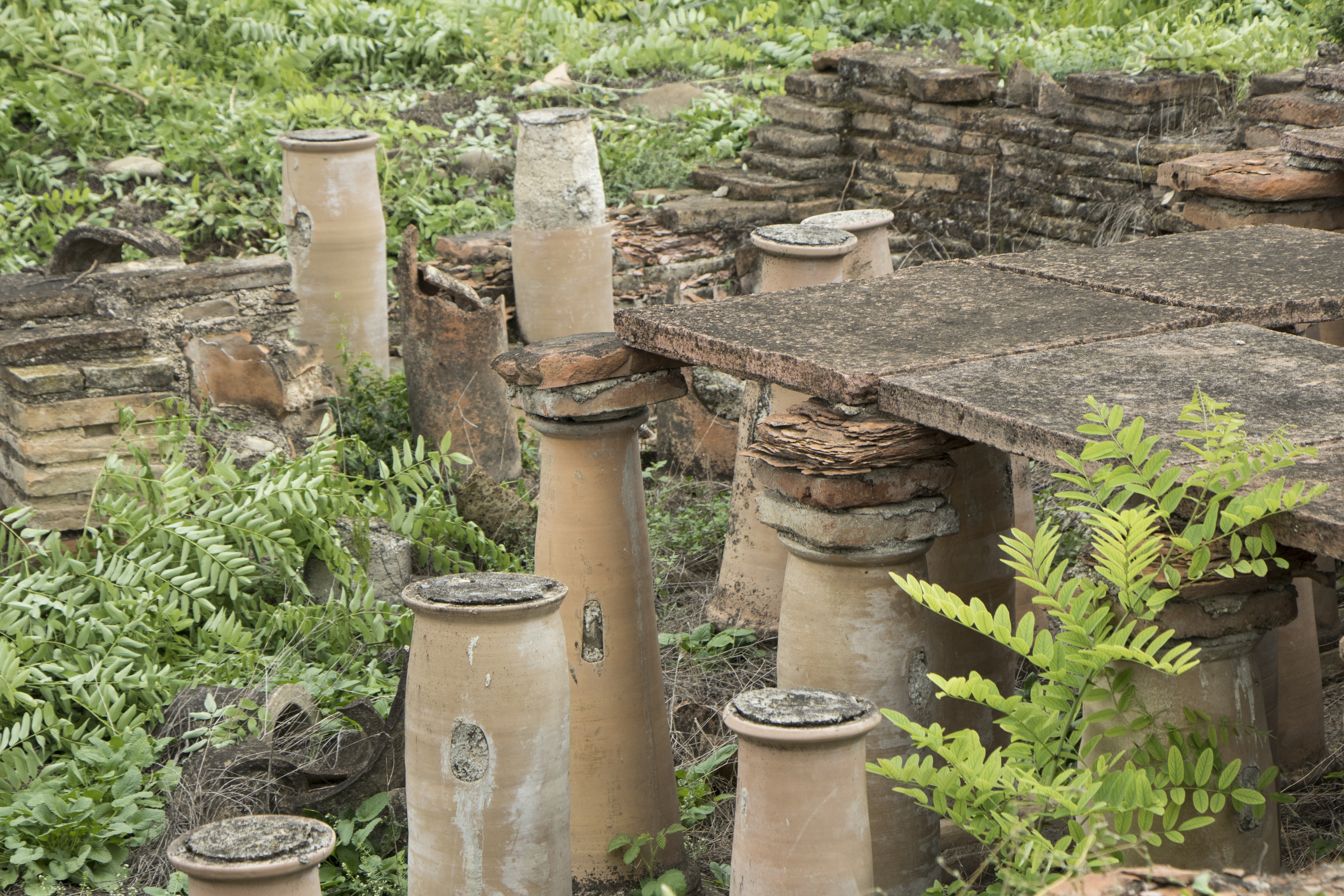 Dzalisi - heating system detail 2